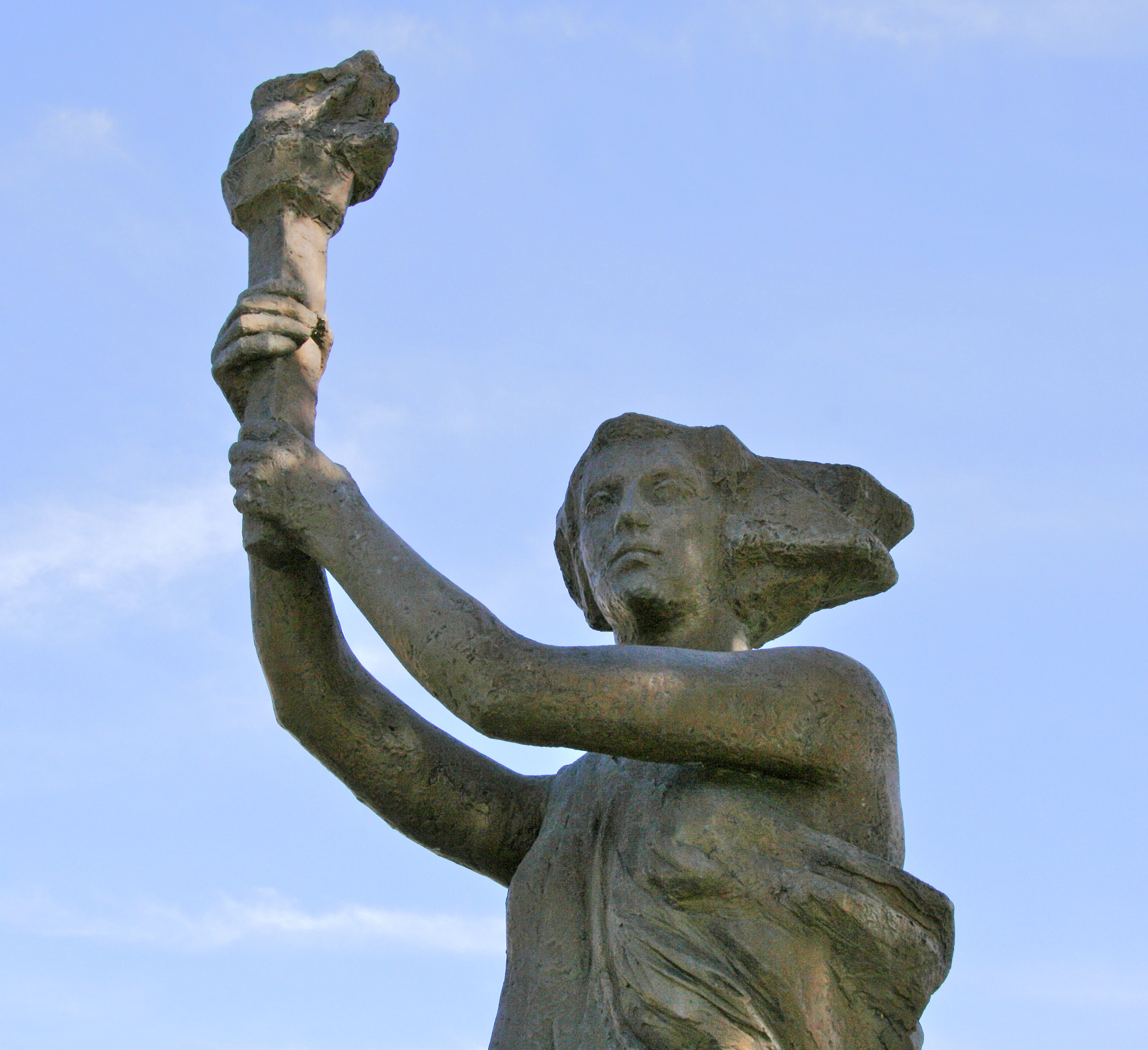 Photo of the "Victims of Communism Memorial" in Washington, DC. The statue is a recreation of the "Goddess of Freedom" statue from the protests in Tianamen Square in 1989, where the original statue was brutally destroyed and 1,000s killed by the PRC Communist government. This recreation of that statue is copyrighted by Thomas Marsh, who has released to right to photograph the statue to anybody CC-BY. The photo is from DBKing (David) on Flickr CC-By CC-By 2.0 at attribution should likely be "Photo by DBKing" or similar